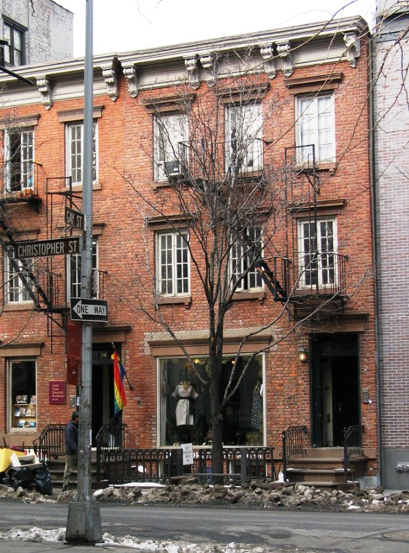 Oscar Wilde memorial bookstore at the T-junction of Gay Street and Christopher Street.